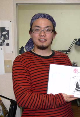 Mangaka Makoto Yukimura, in Tokyo, November 2006.